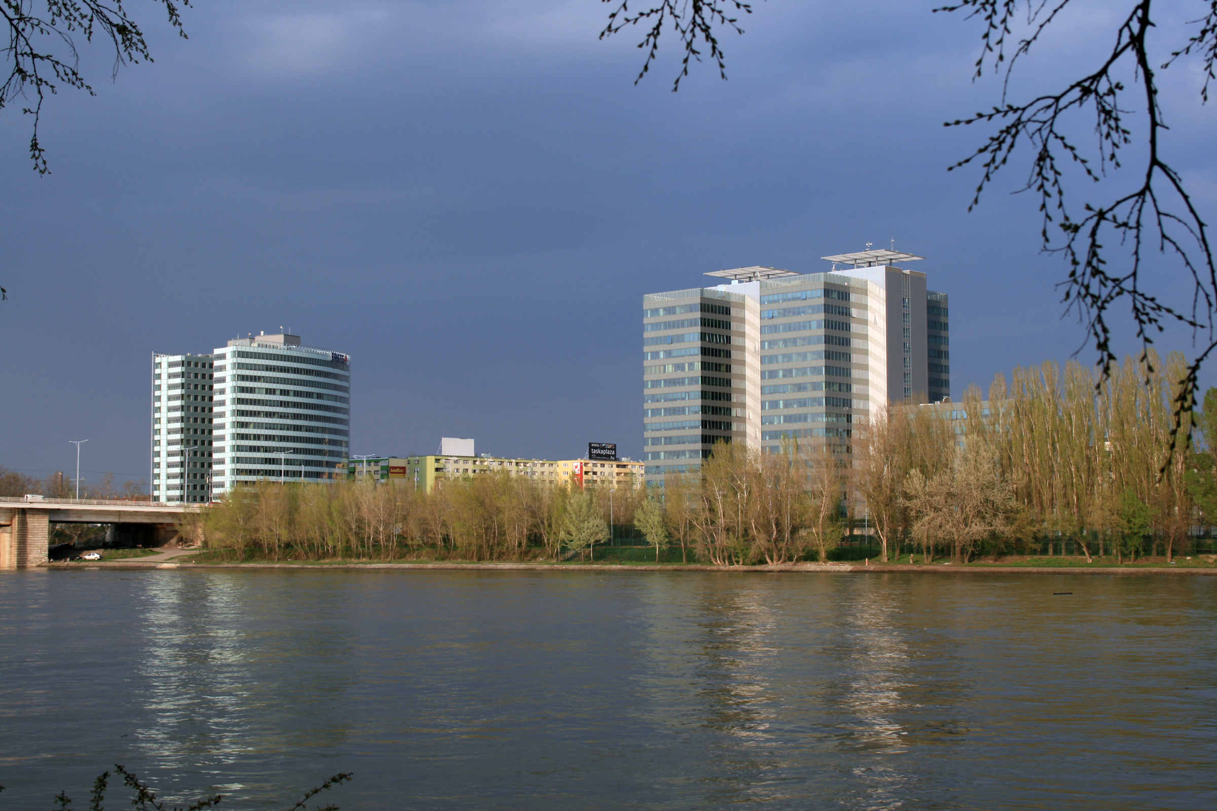 Modern buildings from Margaret Island, Budapest, Hungary